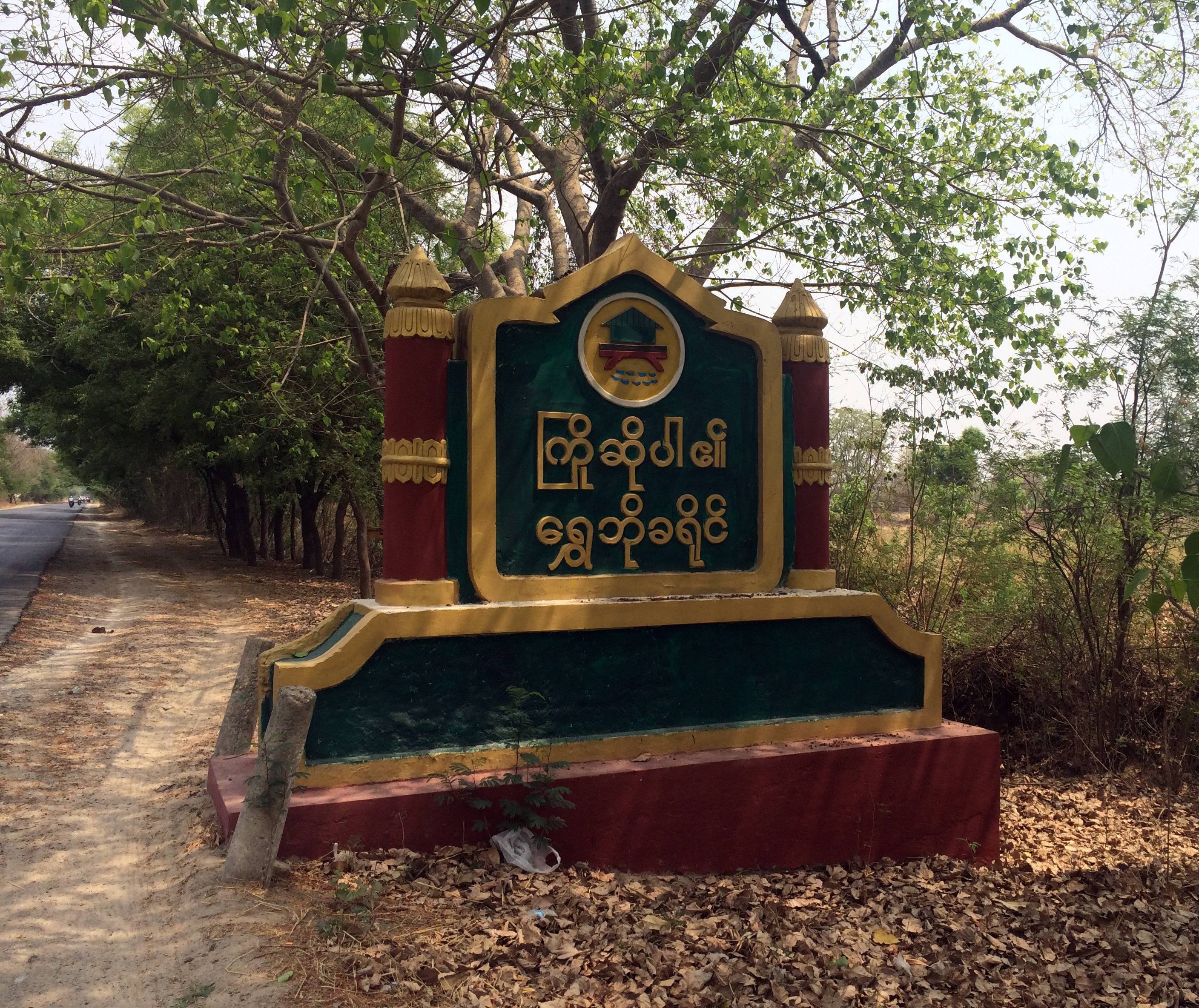 Junction between Sagaing District and Shwebo District မြန်မာဘာသာ: စစ်ကိုင်းခရိုင်နှင့် ရွှေဘိုခရိုင် နယ်နမိတ်ထိတွေ့ရာ နေရာ